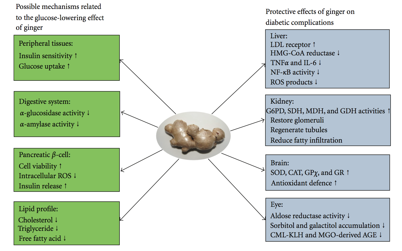 Figure 1: Summary of the mechanism of anti-hyperglycaemic and protective effect of ginger. Possible mechanisms related to the glucose-lowering effect of ginger and protective effects of ginger on diabetic complications